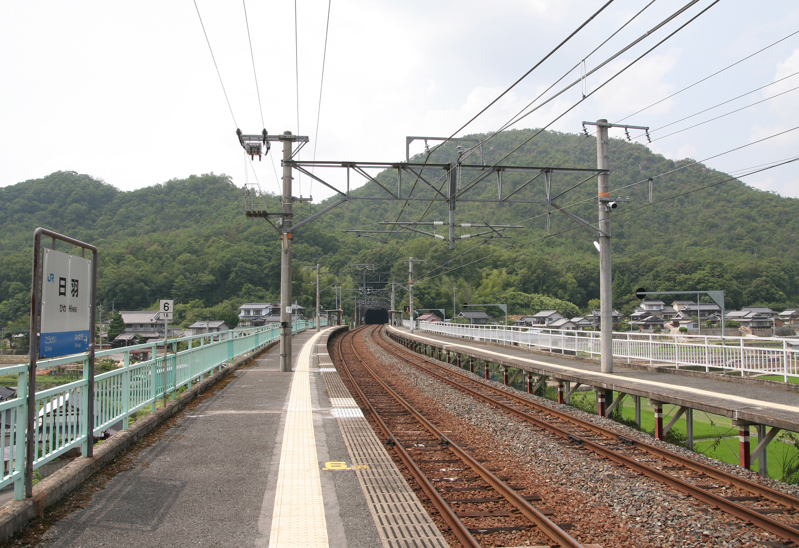 West Japan Railway Hakubi Line hiwa station enclosure